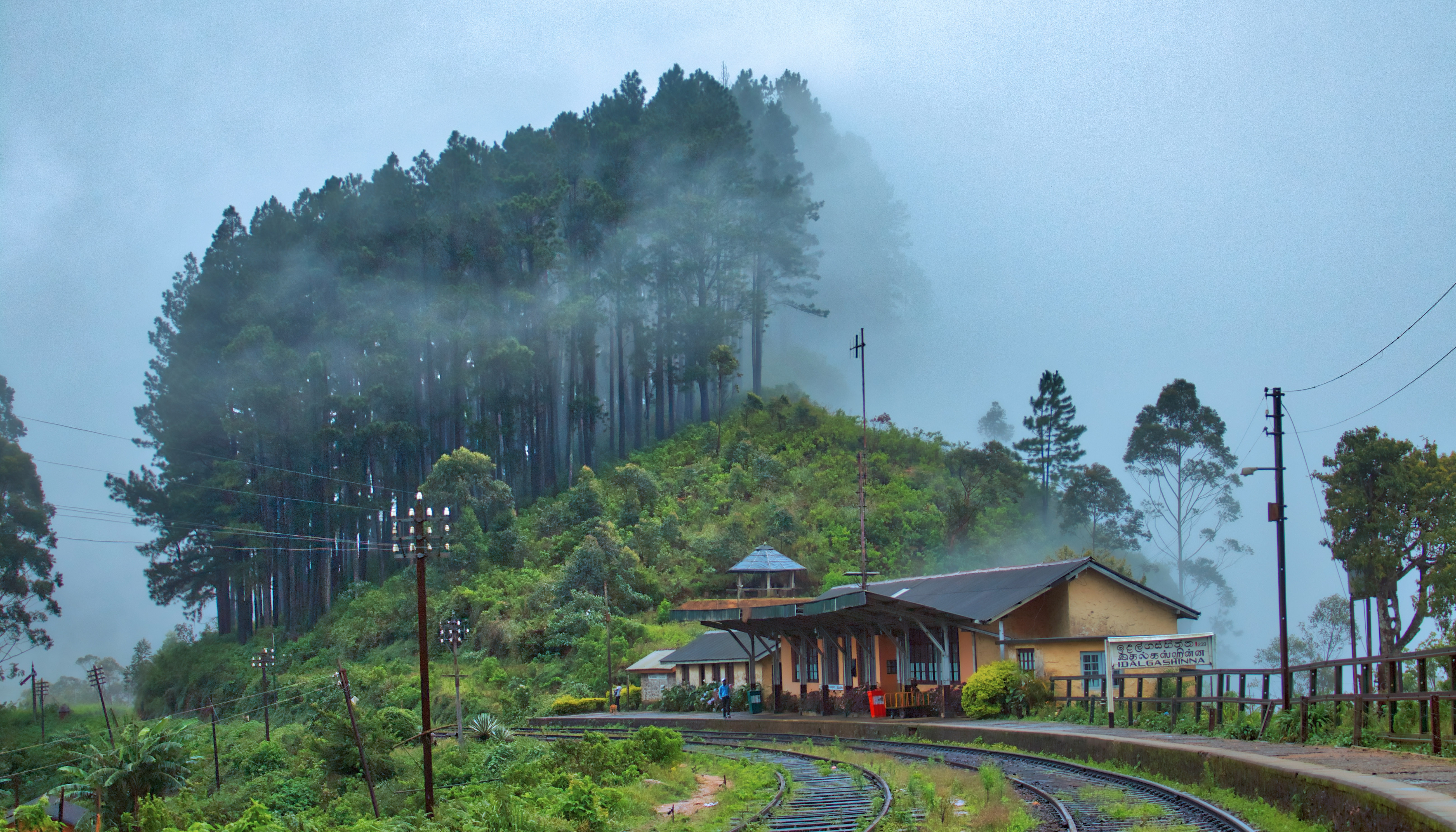 Idalgashinna railway station in December 2017, part of the Rail Pa collection by Samantha Weerasinghe